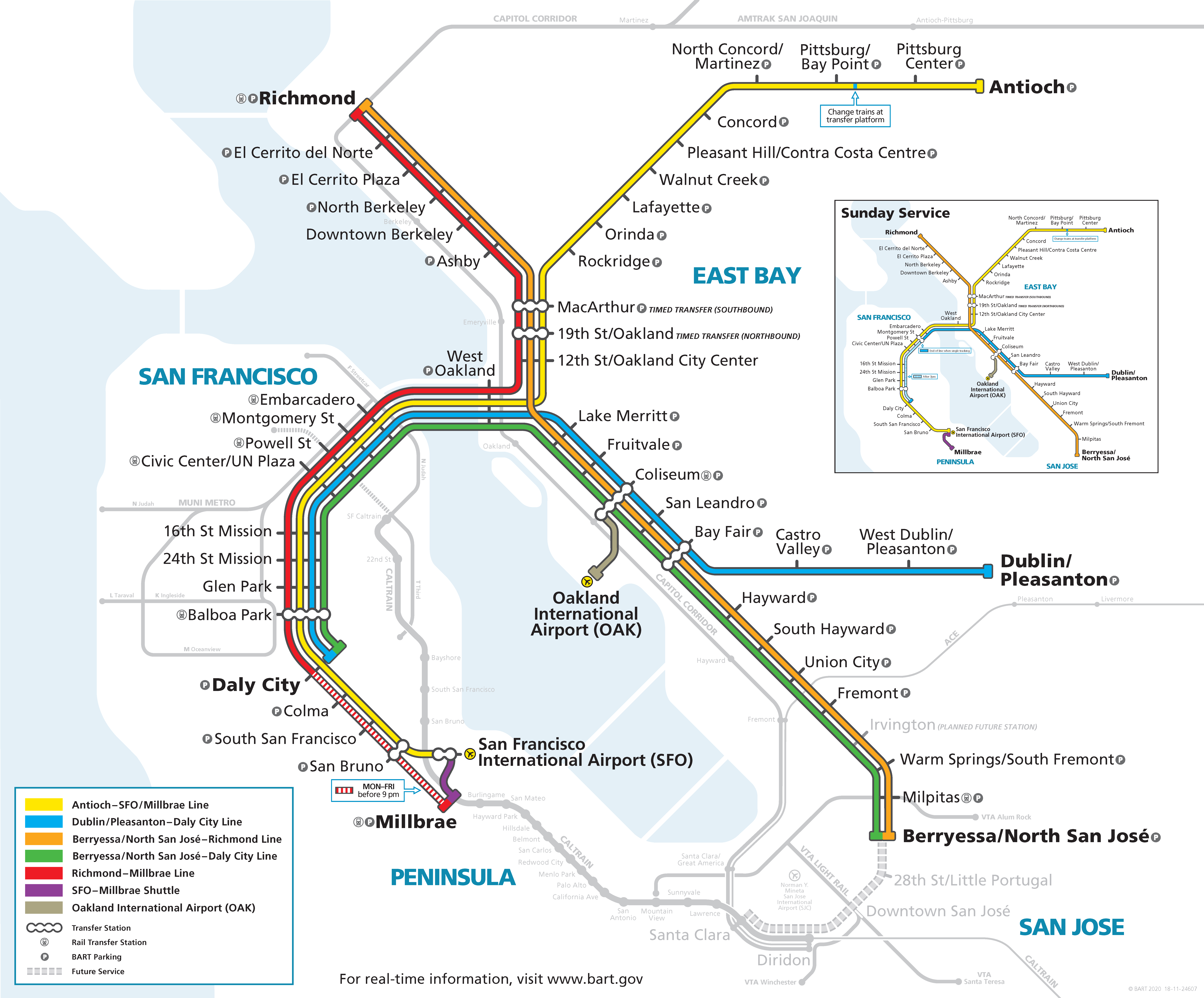 BART system map accurate to the opening of the Milpitas and Berryessa/North San Jose stations on June 13, 2020. Sunday service is shown in an inset.